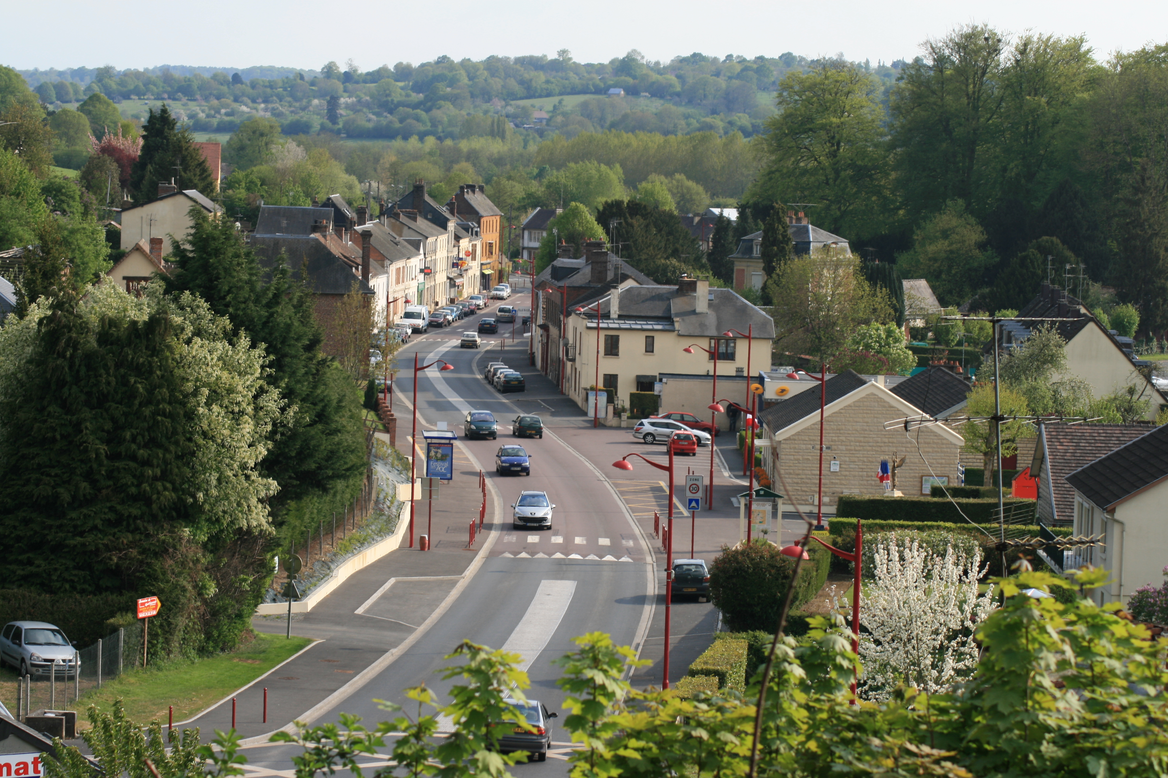 Main street of Saint-Martin-de-la-Lieue (14100) : "Rue du commerce".